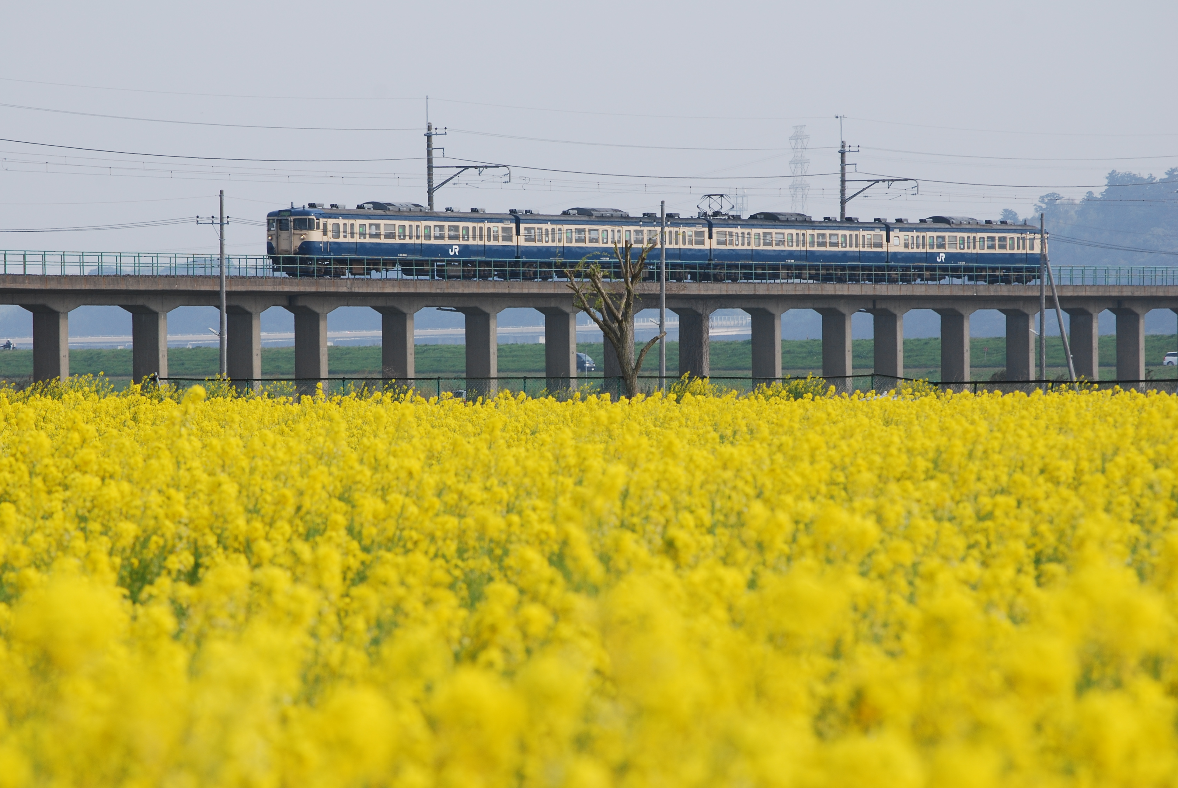 JR Kashima Line,Jyunikyo-Katori,Katori-city,Japan.JPG